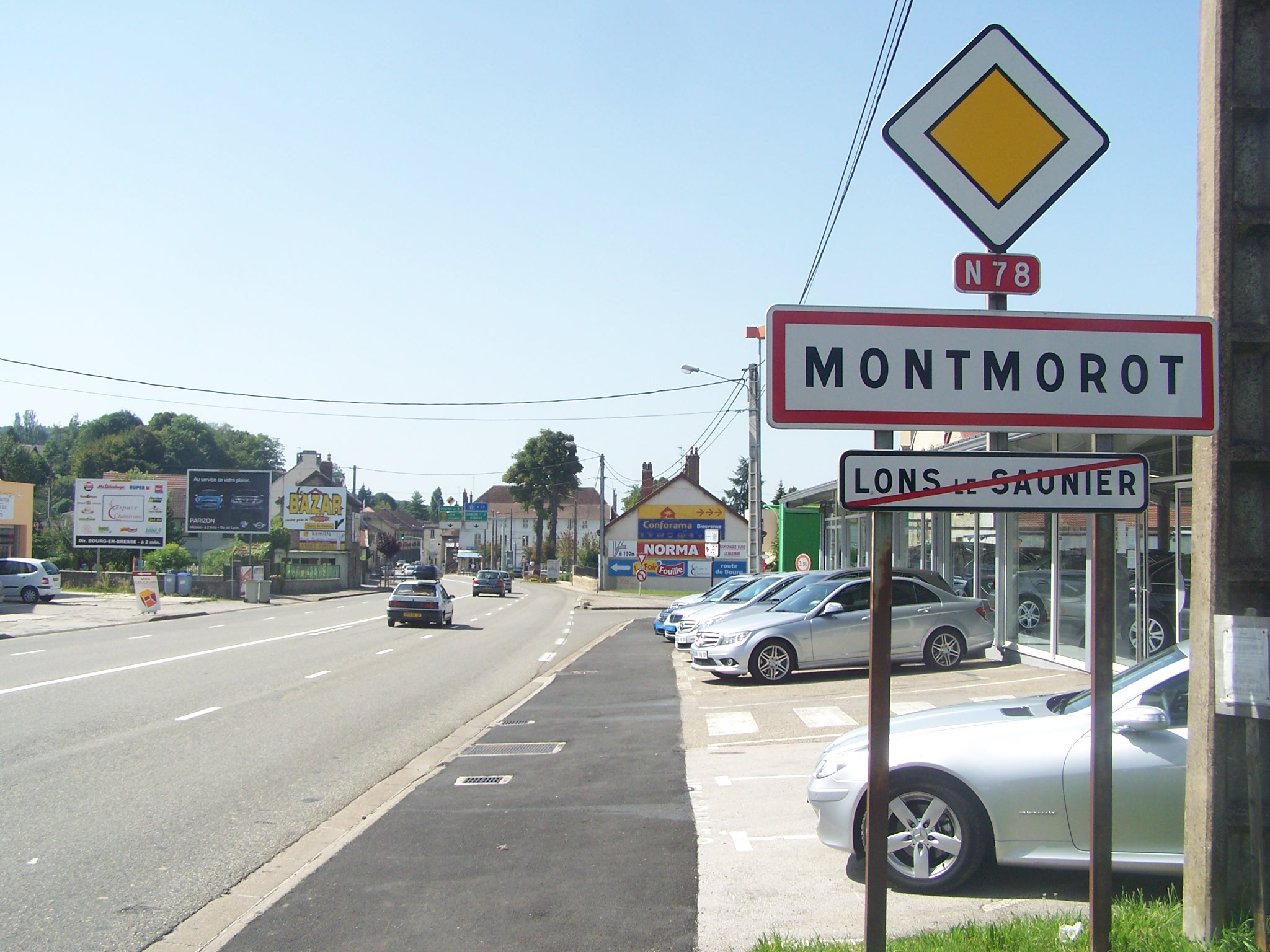 Sign welcoming visitors to the French commune of Montmorot when leaving city of Lons-le-Saunier capital of Jura.